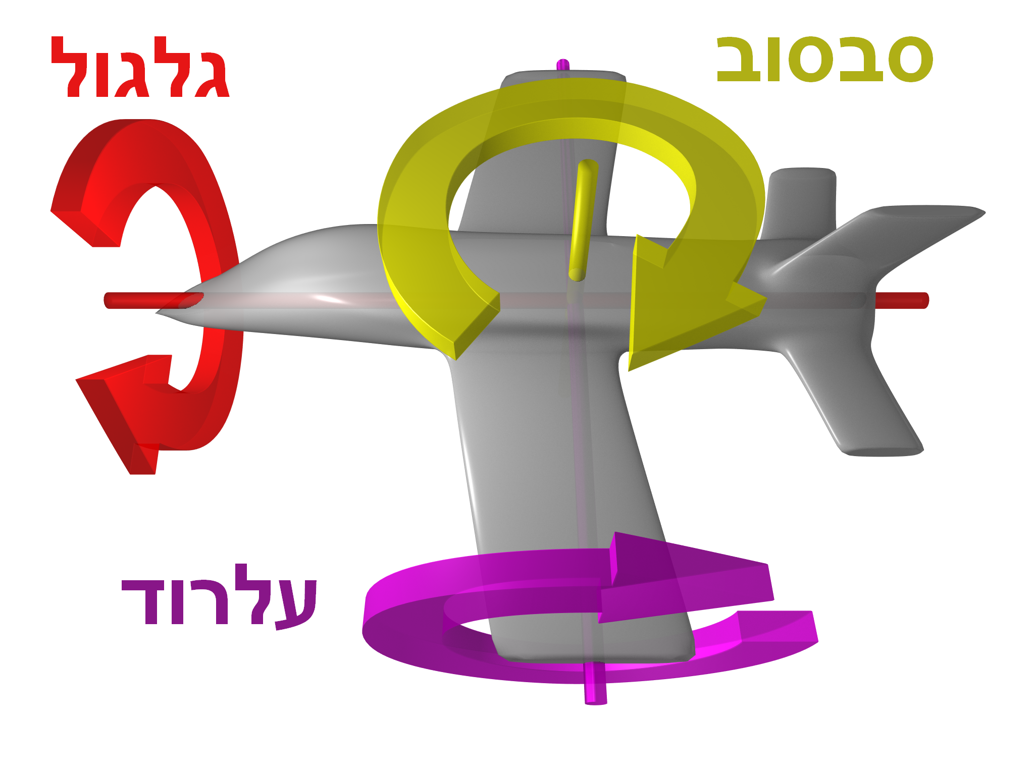 Roll, yaw and pitch axis definition for an airplane.